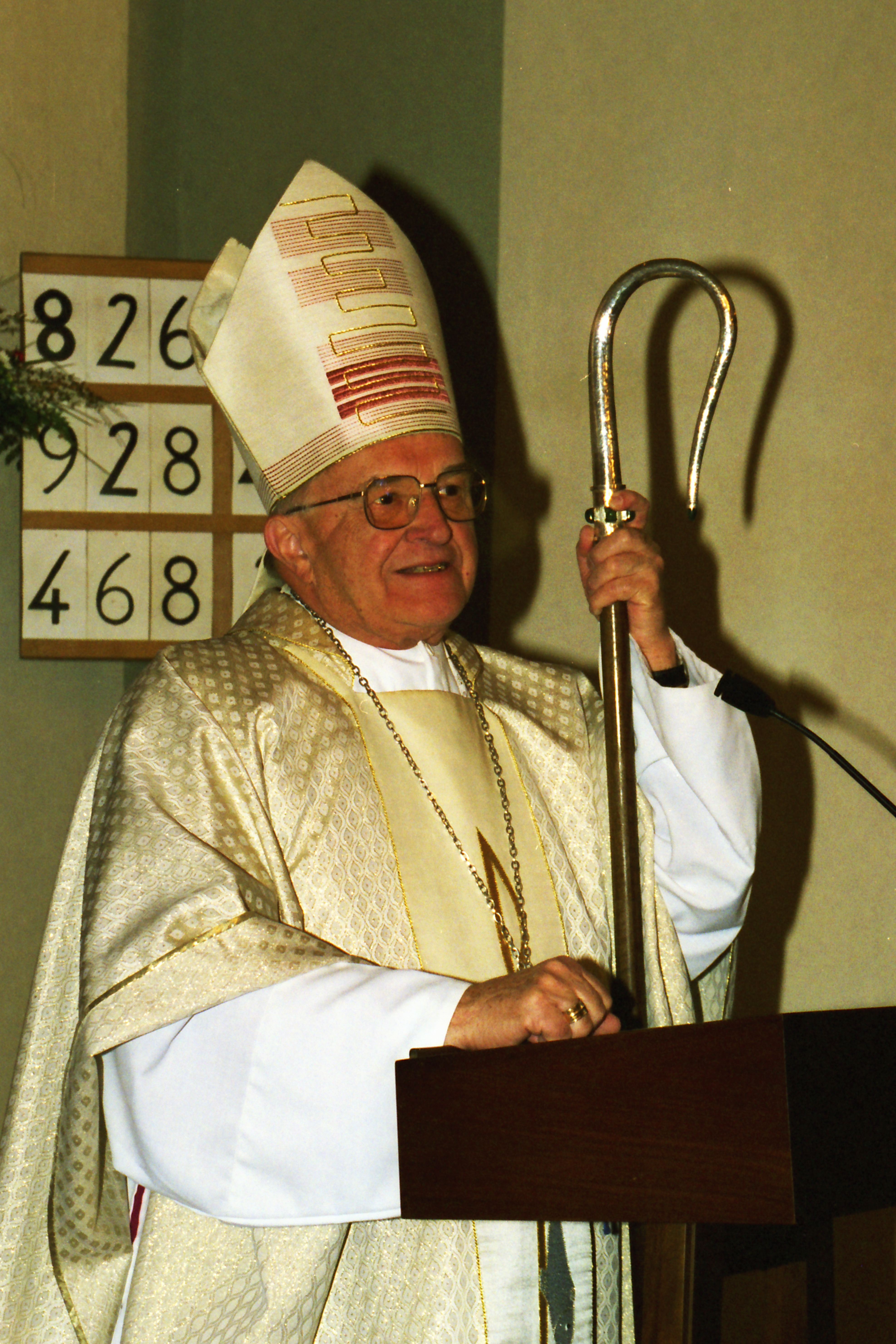 Johann Weber (bishop)